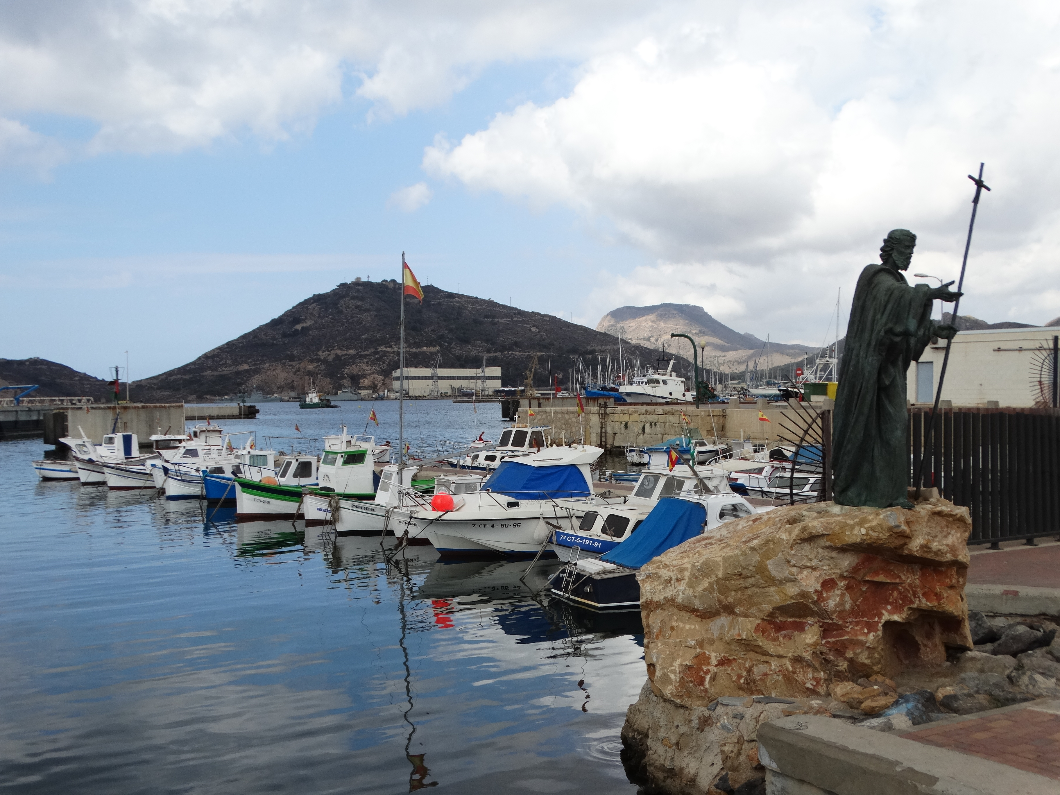 Statue of apostle James the Greater, patron of Spain, in the Santa Lucía dock in the Spanish city of Cartagena (Region of Murcia). The sculpture is located at the point that traditionally has been designated as the landing scene of the saint in the Iberian Peninsula to spread the Gospel.